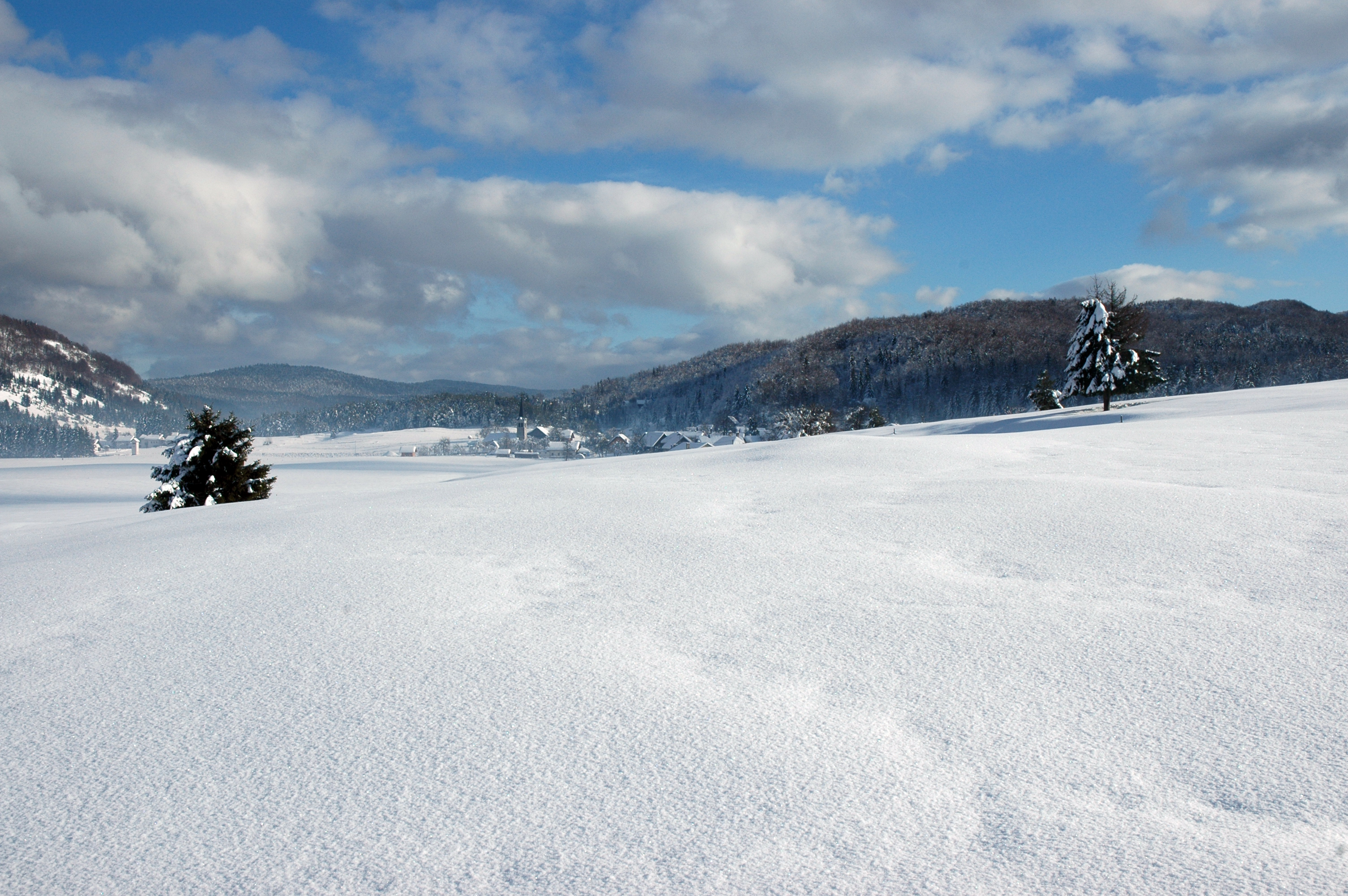 Babno Polje, Slovenia, in winter